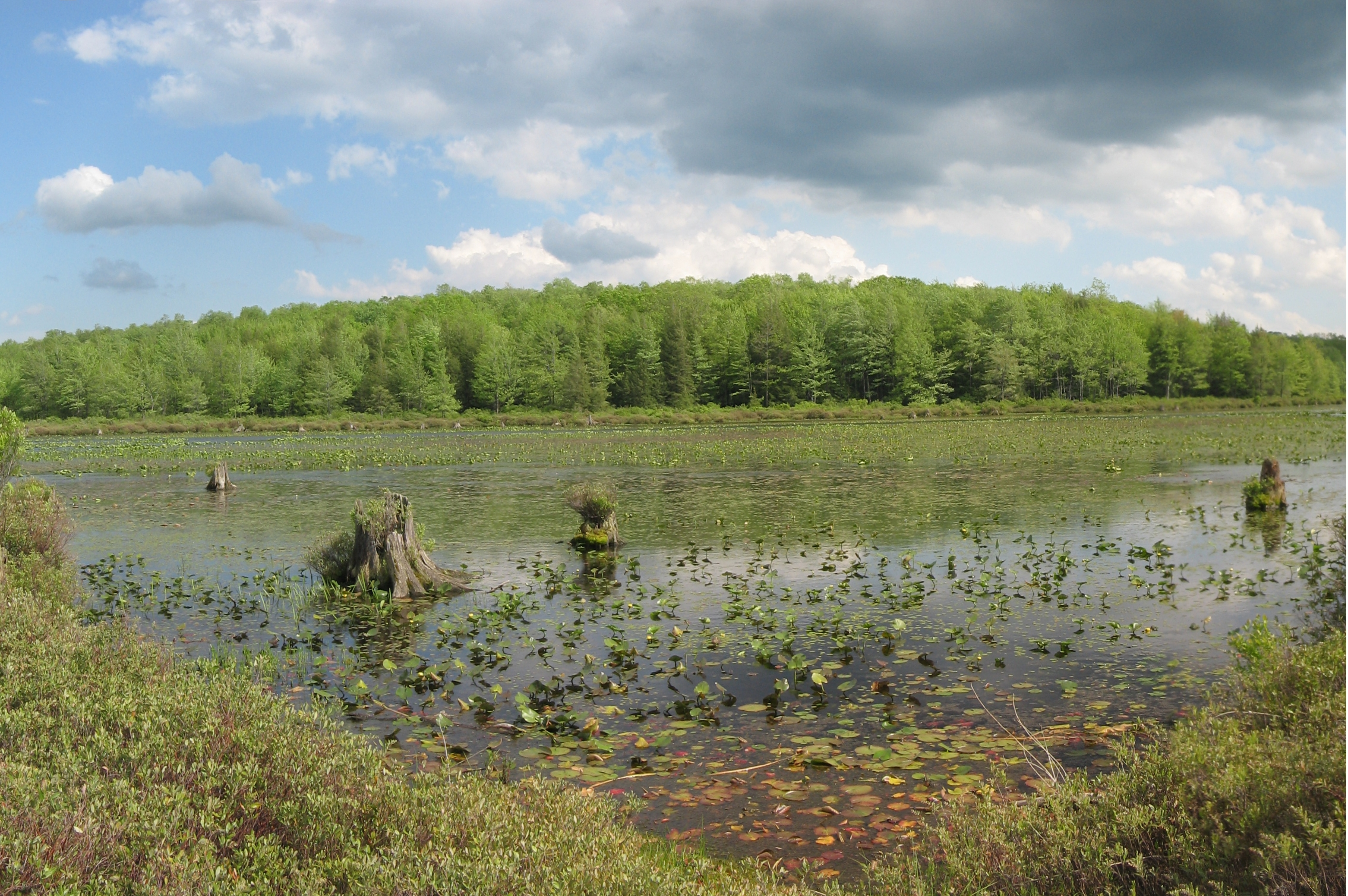 View of bog and lake from the bog trail in the Black Moshannon Bog Natural Area at Black Moshannon State Park, near Phillipsburg, Rush Township, Centre County, Pennsylvania, USA.